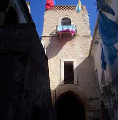 An image owned by contributor